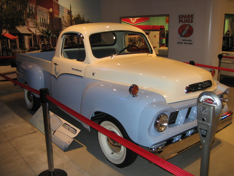 Restored Studebaker Transtar Pickup, taken at Dick Clark's '57 Heaven in Branson, MO. It is Model 3-E. The factory base price was $1,888 plus options. It had a 259 ci V8 engine with 170 horsepower and three-speed manual transmission.